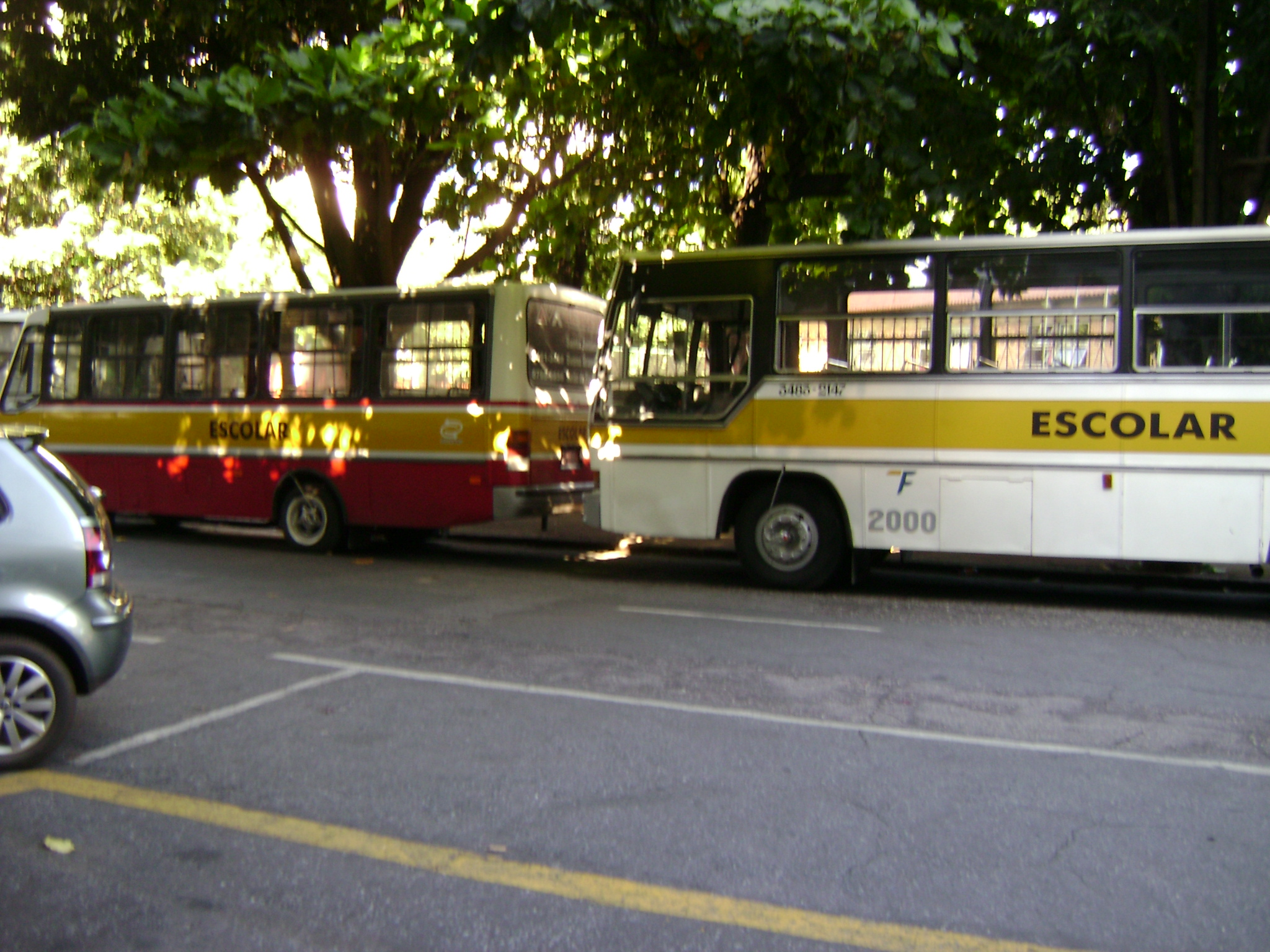 Fila de ônibus escolar, em Belo Horizonte.